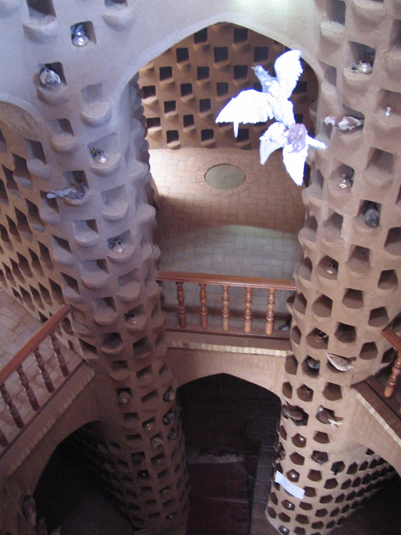 Traditionnal building for pigeons in Meybod, near Yazd, Iran.